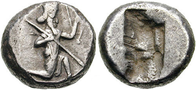 Persia, Achaemenid Kings. Circa 485-470 BC